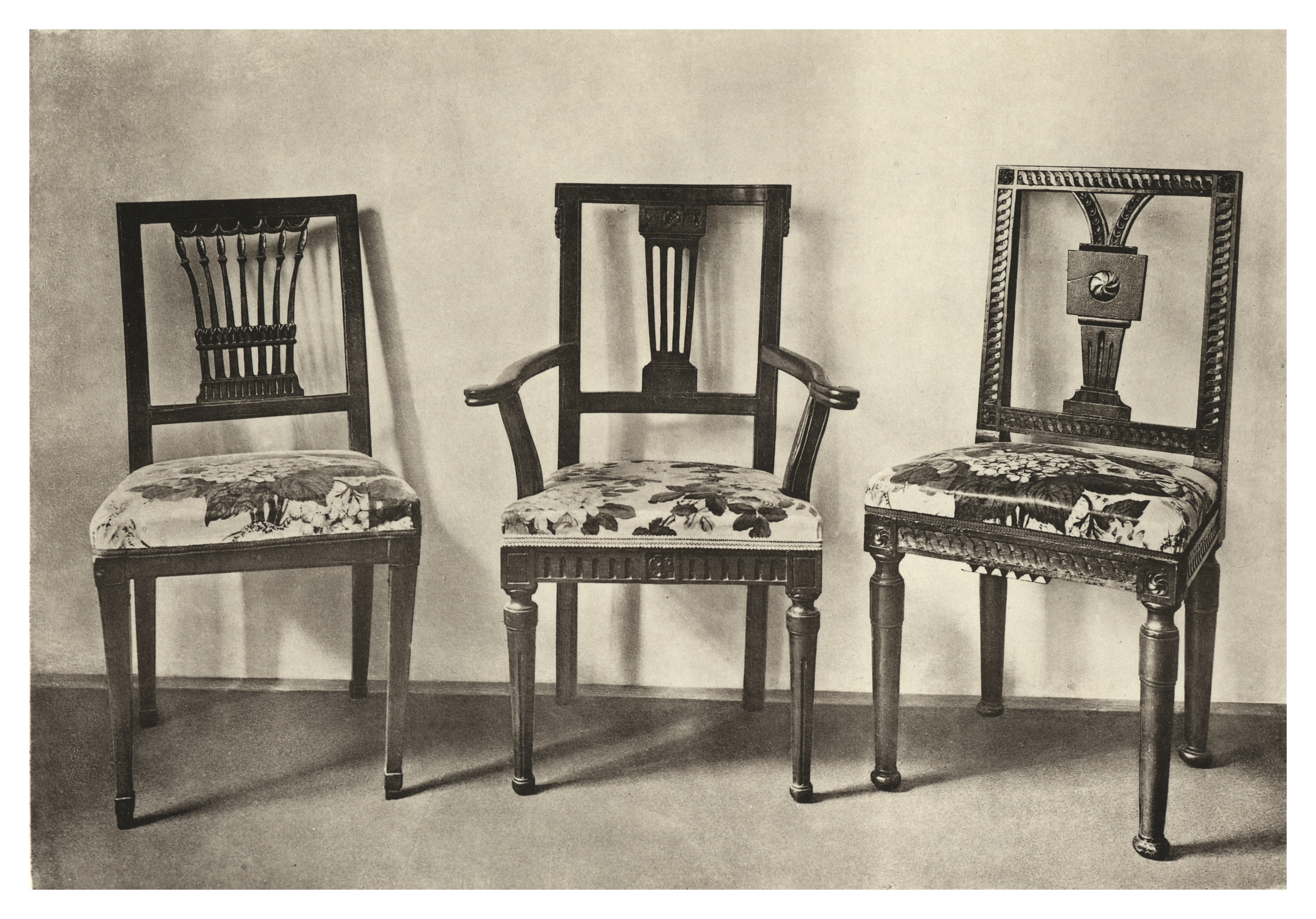 Josephinism interior, Austria — end of 18th Centuy. Description=LEHNSTUHL, Nussholz geschnitzt. Polsterung neu. Die gewundenen Armstützen mit ihrem geschnitzten Blattornament und der gotisierende Mittelteil der Rückenlehne zeigen deutlich den Einfluss englischer Vorbilder (Chippendale). STÜHLE, Nussholz geschnitzt, Polsterung neu. Mittelteile der Rückenlehnen englischen Vorbildern (Hepplewhite) nachempfunden. Scanprojekt Bundesdenkmalamt Österreich This scan or this PDF-file was created within the Austrian Wikipedia-project Denkmalpflege Österreich (German only) supported by Wikimedia Germany and Wikimedia Austria as part of the Wikipedia community-project to collect public domain documents from the library of the Heritage Monuments Board of Austria. This document describes or depicts an object which is located in Austria today. Texts are written in German language. Send requests for uncompressed scans to Hubertl. This work is in the public domain in its country of origin and other countries and areas where the copyright term is the author's life plus 100 years or less. You must also include a United States public domain tag to indicate why this work is in the public domain in the United States. This file has been identified as being free of known restrictions under copyright law, including all related and neighboring rights.